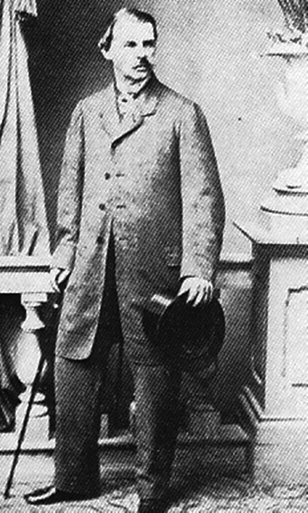 Maximilian Joseph, Duke in Bavaria (1808–1888), father of Empress Elisabeth of Austria